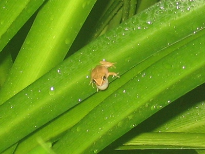 Eleutherodactylus brittoni or Grass Coquí. Found in a garden at a resort in Puerto Rico.